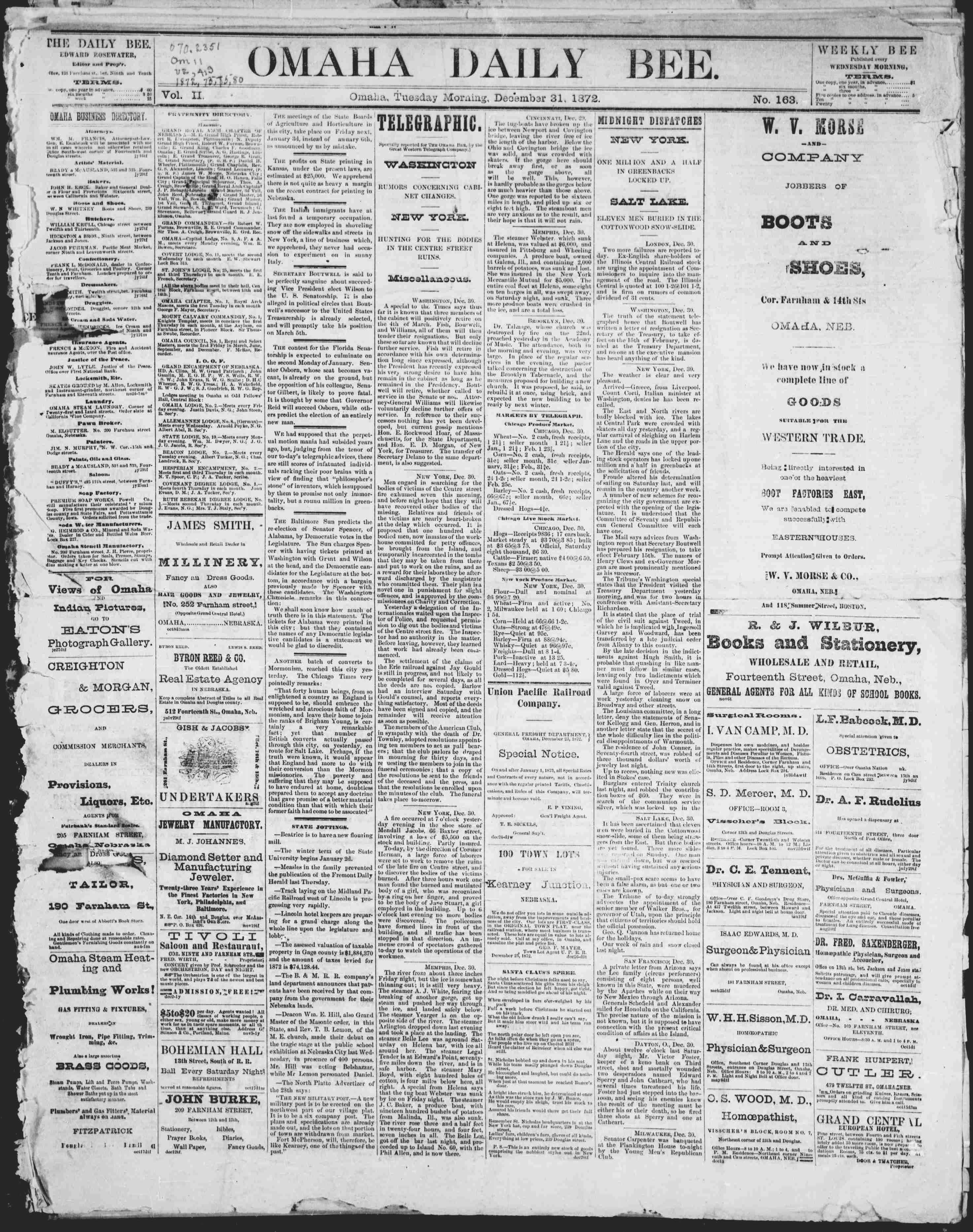 The title page from the December 31, 1901 first issue of The Omaha Daily Bee, a newspaper published out of Omaha, Nebraska established by Edward Rosewater